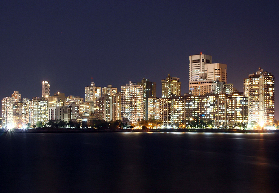 Downtown Mumbai from Nariman Point.